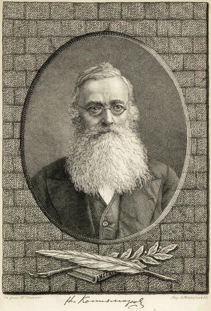 Nikolay Kostomarov